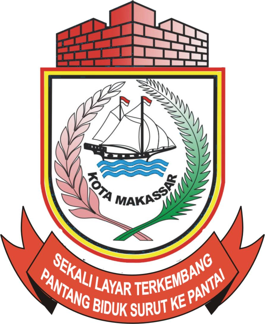 Lambang (Coat of Arms) of Kota (City) of Makassar, Provinsi Sulawesi Selatan (South Sulawesi Province), Indonesia